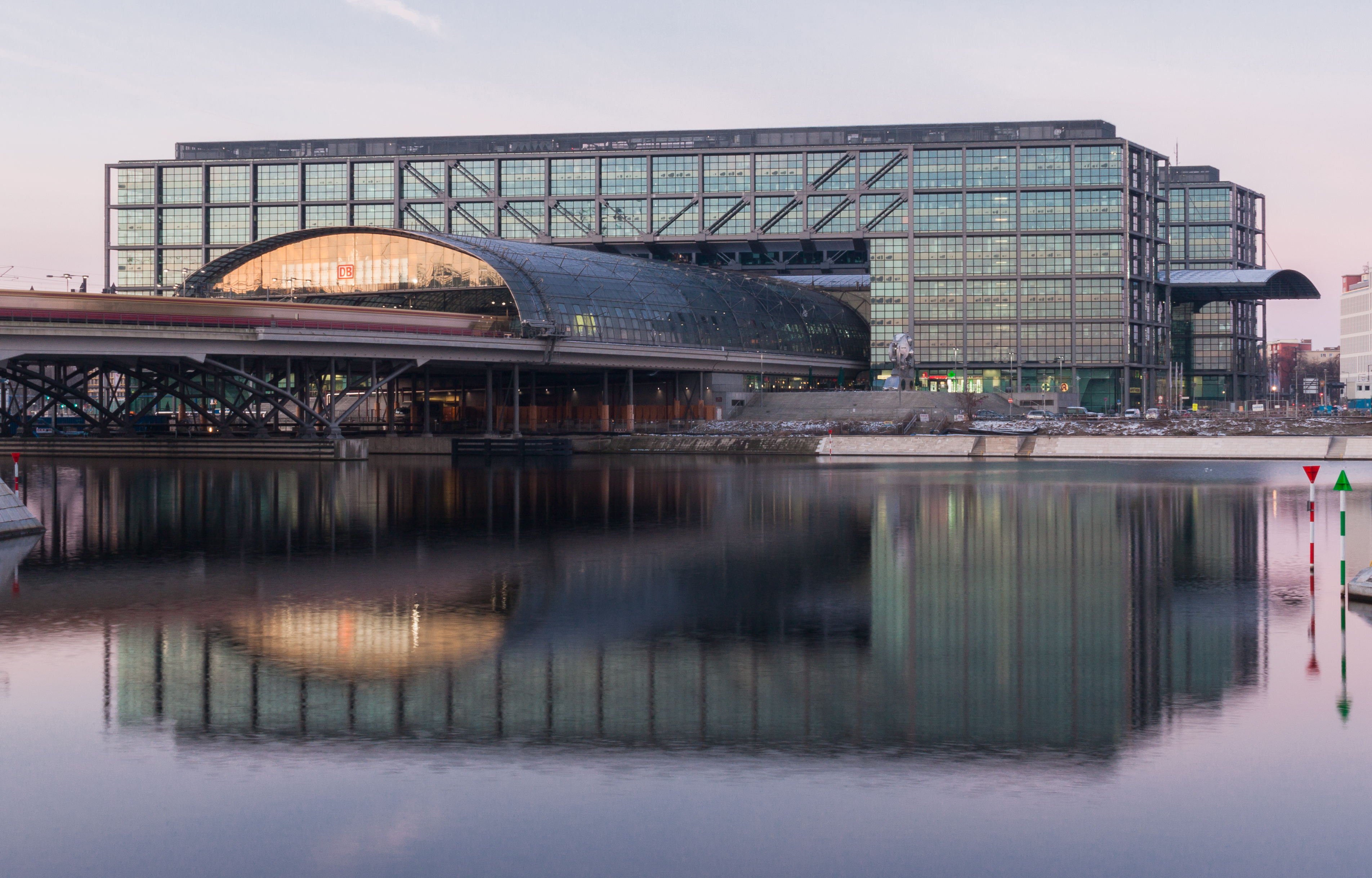 East facade of Berlin Central Station as seen at early dawn from Alexanderufer. The building is reflecting in the water of Humboldt harbour. During the exposure a train was coming in. The building was designed by Meinhard von Gerkan.